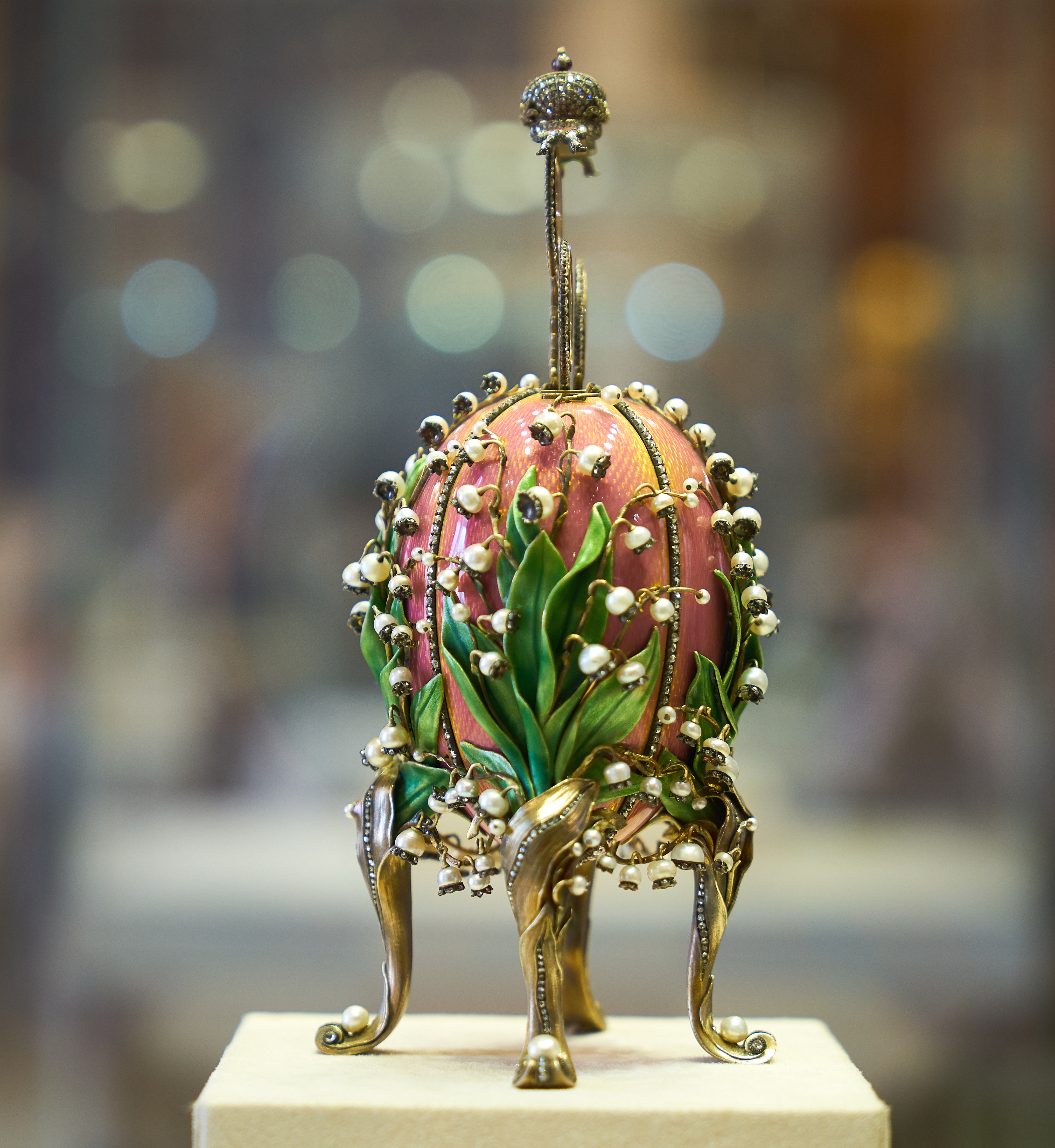 A Fabergé egg is a jewelled egg created by the House of Fabergé, in St. Petersburg, Imperial Russia